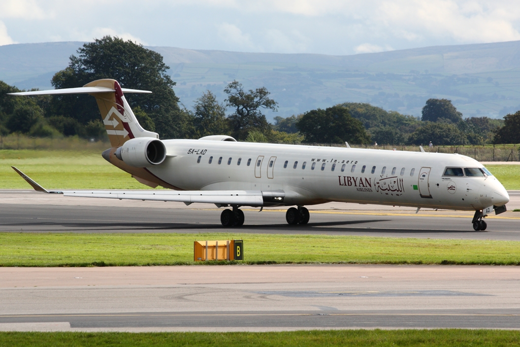 Canadair CRJ900, 5A-LAD, c/n 15214 of Libyan Arab Airlines arriving at Manchester from Tripoli. She was delivered to Libya on 27/01/2009. Picture taken at Manchester 31/08/2009.